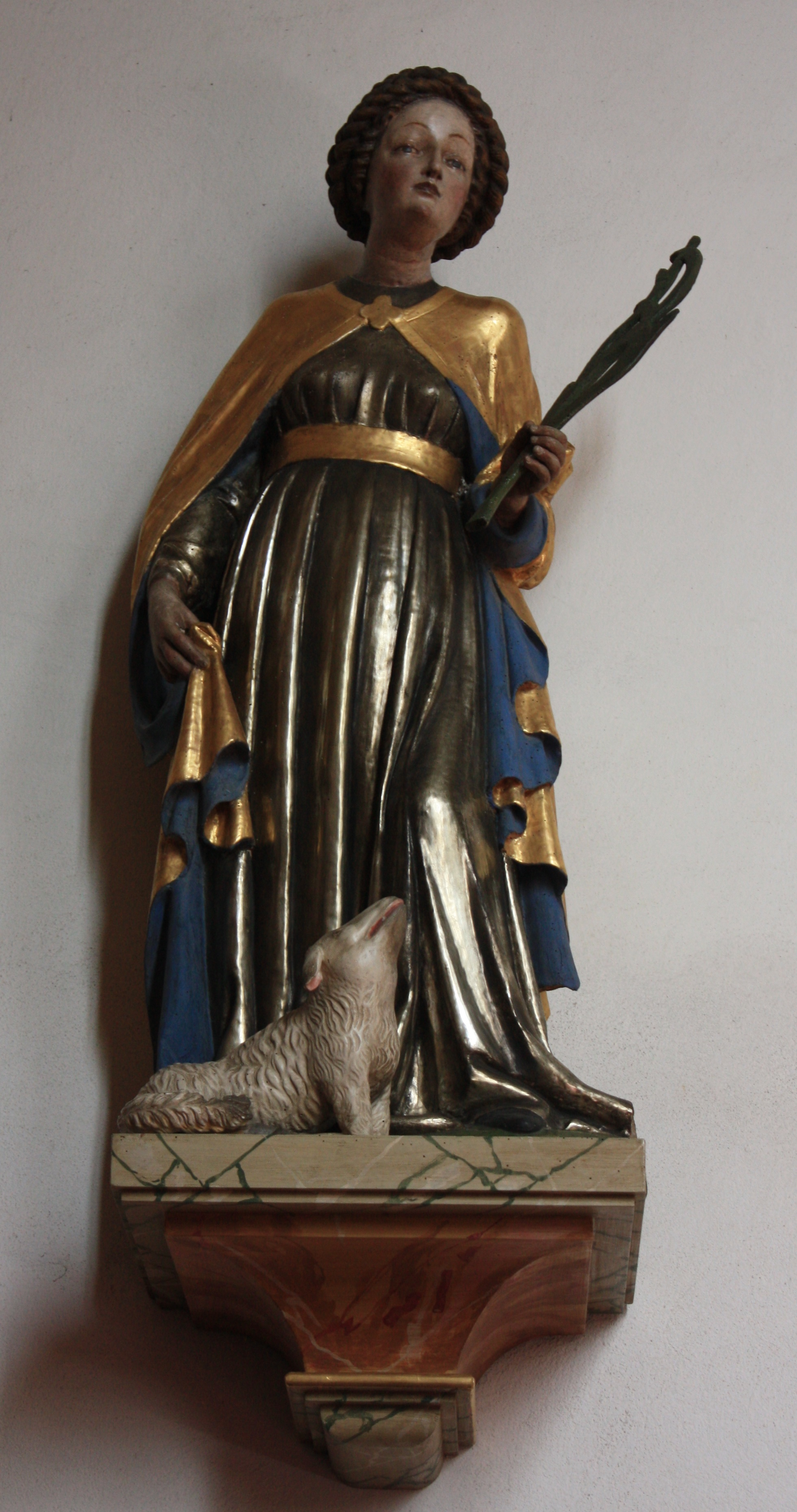 Parish church „Saint Mary Magdalene“ in Ruden in the community of Ruden - Saint Agnes